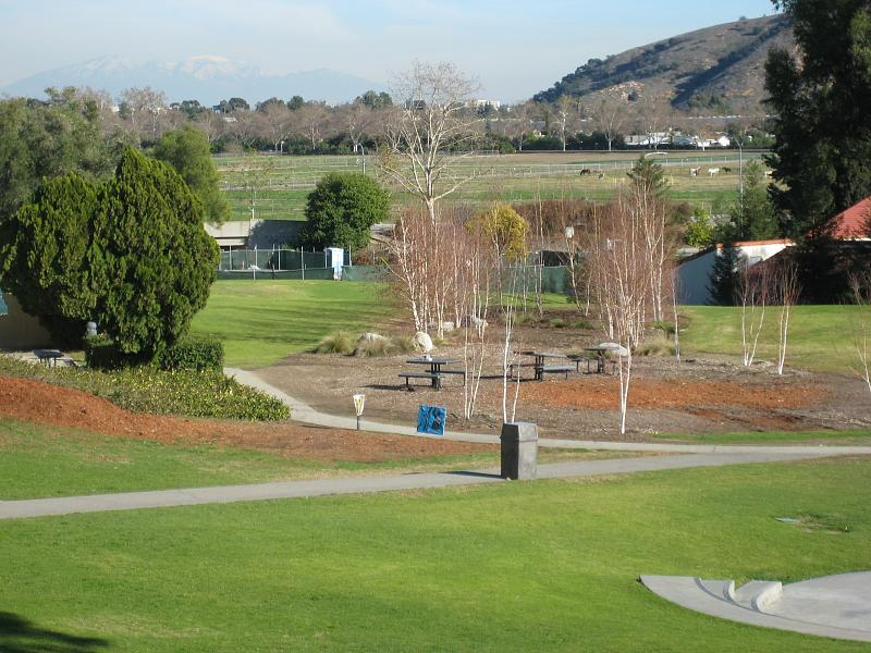 Cal Poly Pomona with Arabian horse paddock in background.